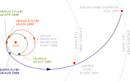 Cassini's Interplanetary trajectectory, converted to SVG by timecop from